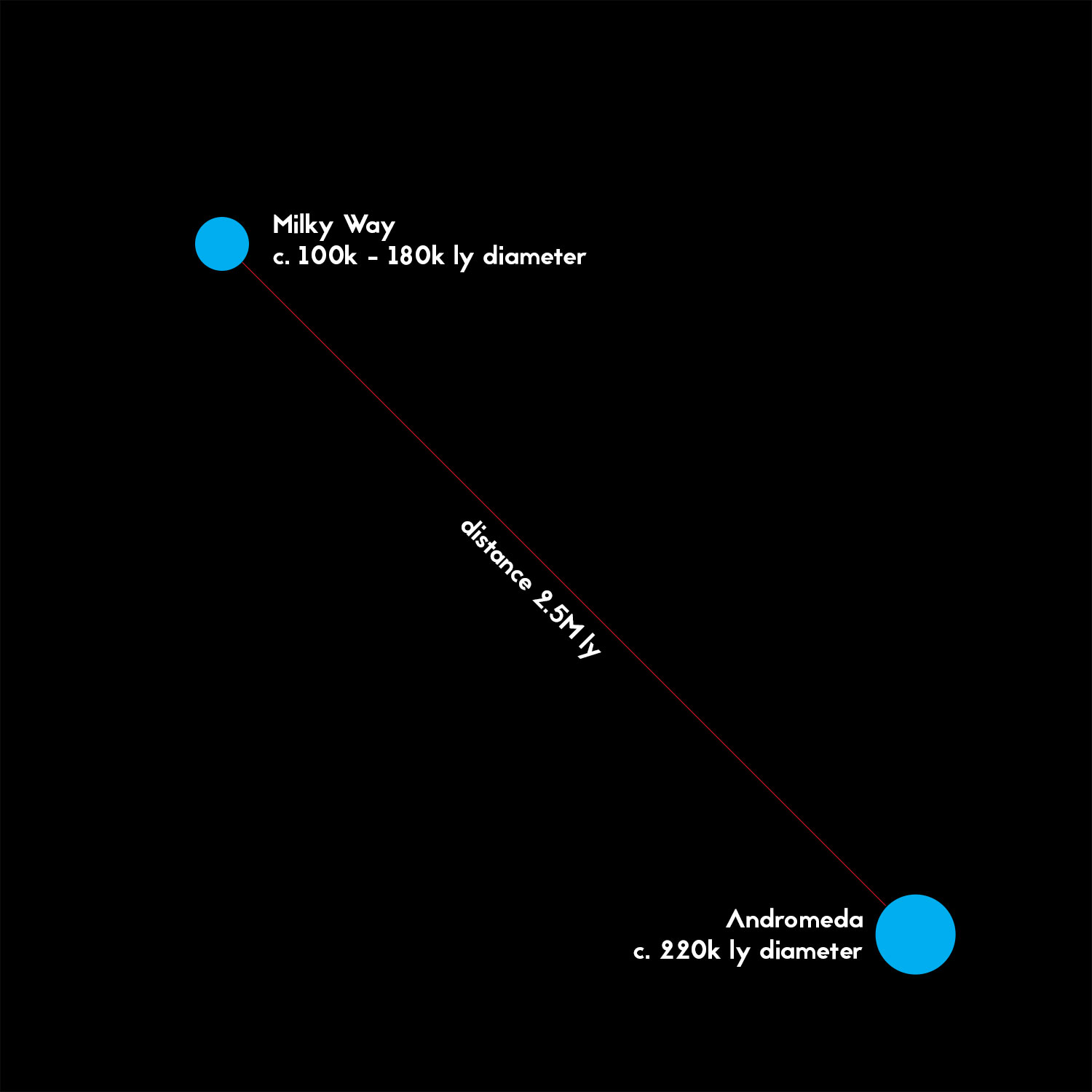 This image shows the Milky Way and Andromeda galaxies in space to scale. It illustrates both the size of each galaxy and the distance between the two galaxies, to create a better understanding of relative sizes and distances.